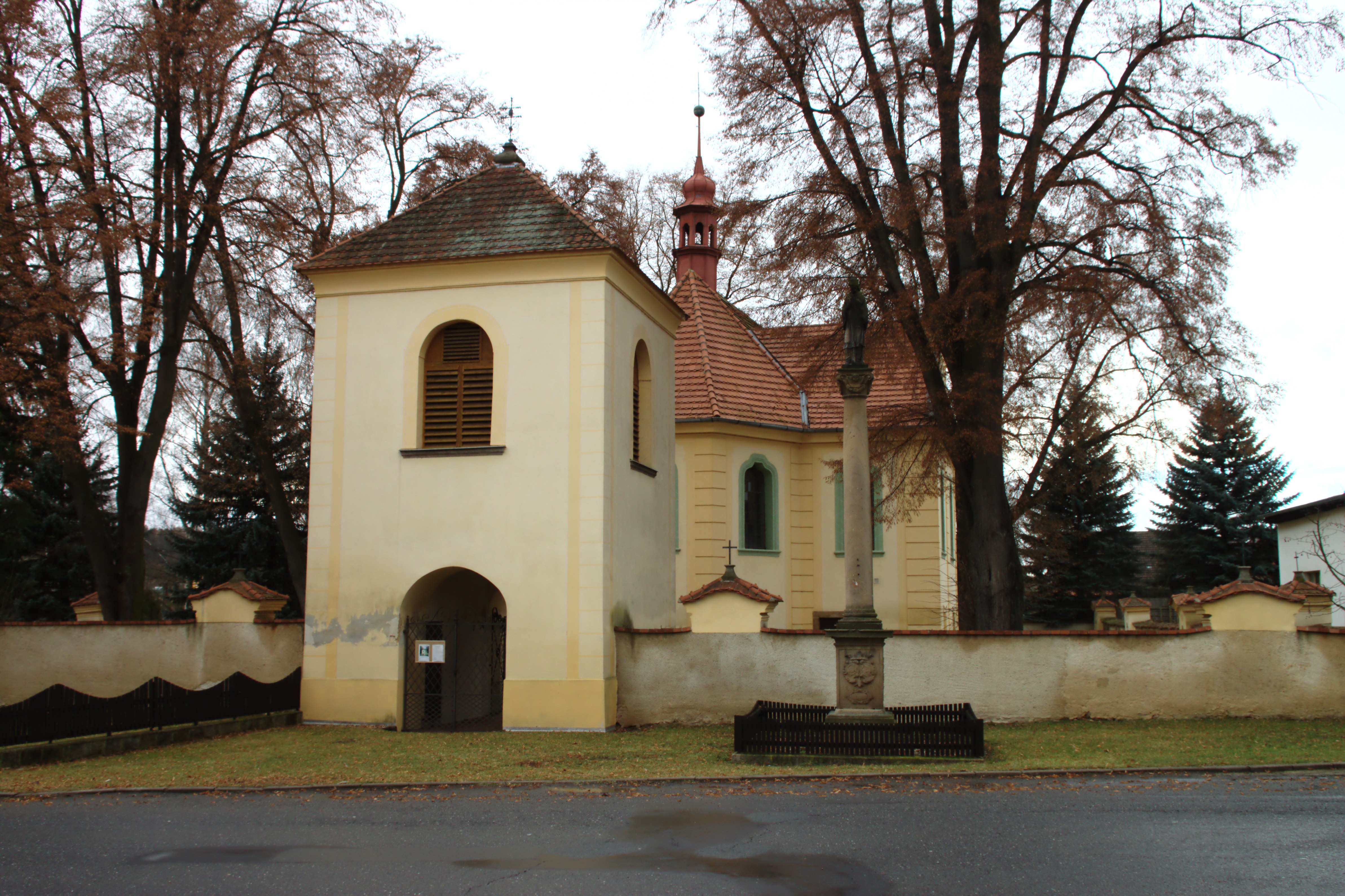 The church in the town of Olešná, Central Bohemian Region, CZ